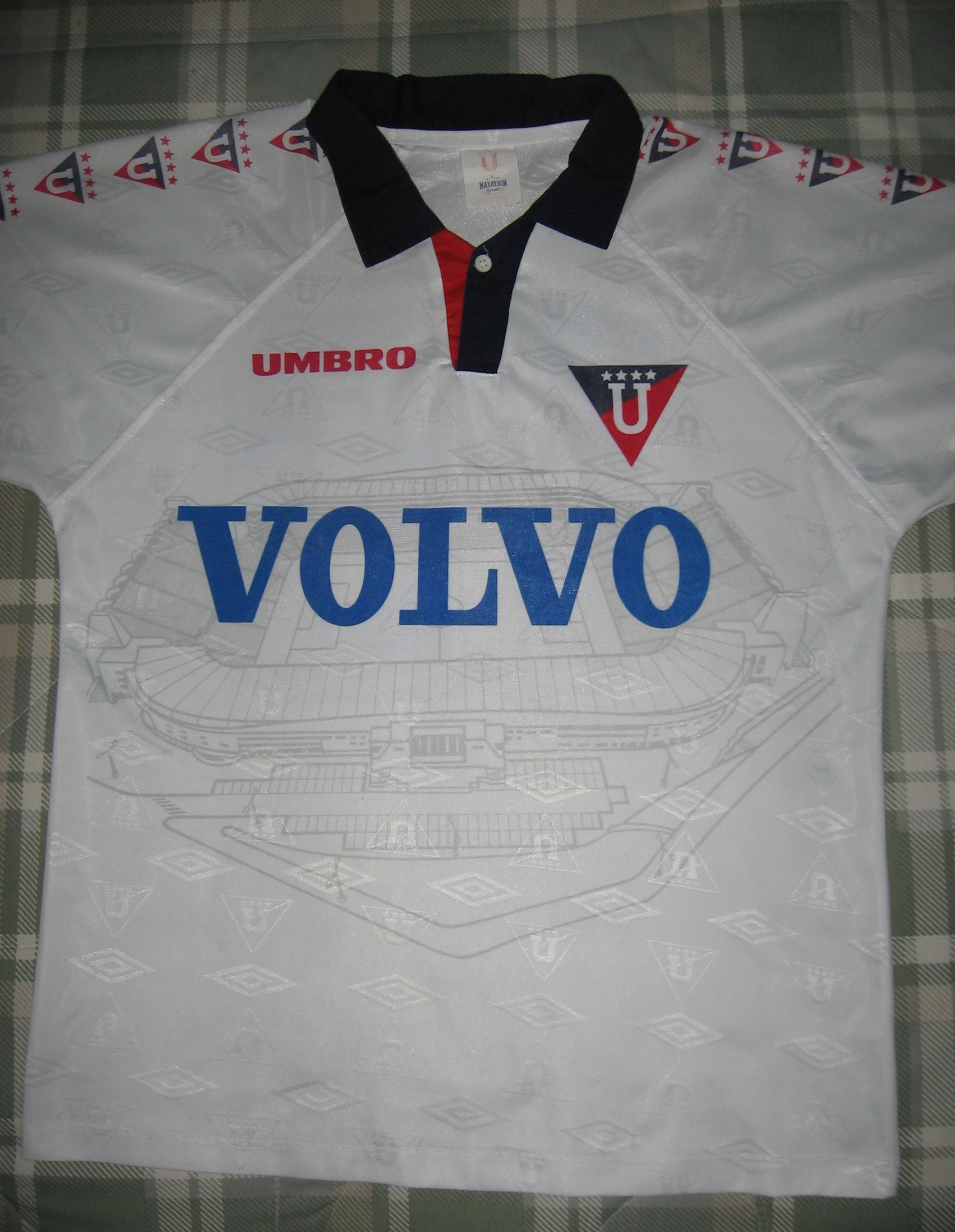 LDU QUITO 1997